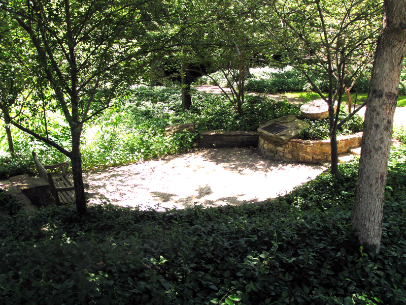 Part of a park in Highland Park, Texas (USA)